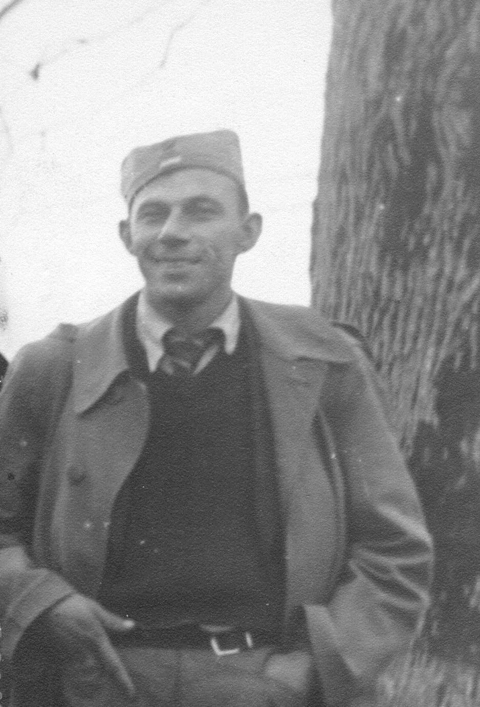 Pekiša Vuksan